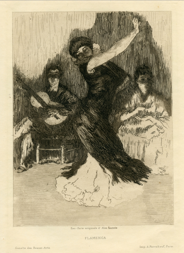 Flamenca, etching, dim. : 20,5 x 14 cm. Printed in Paris by Porcabeuf for the Gazette des beaux-arts.